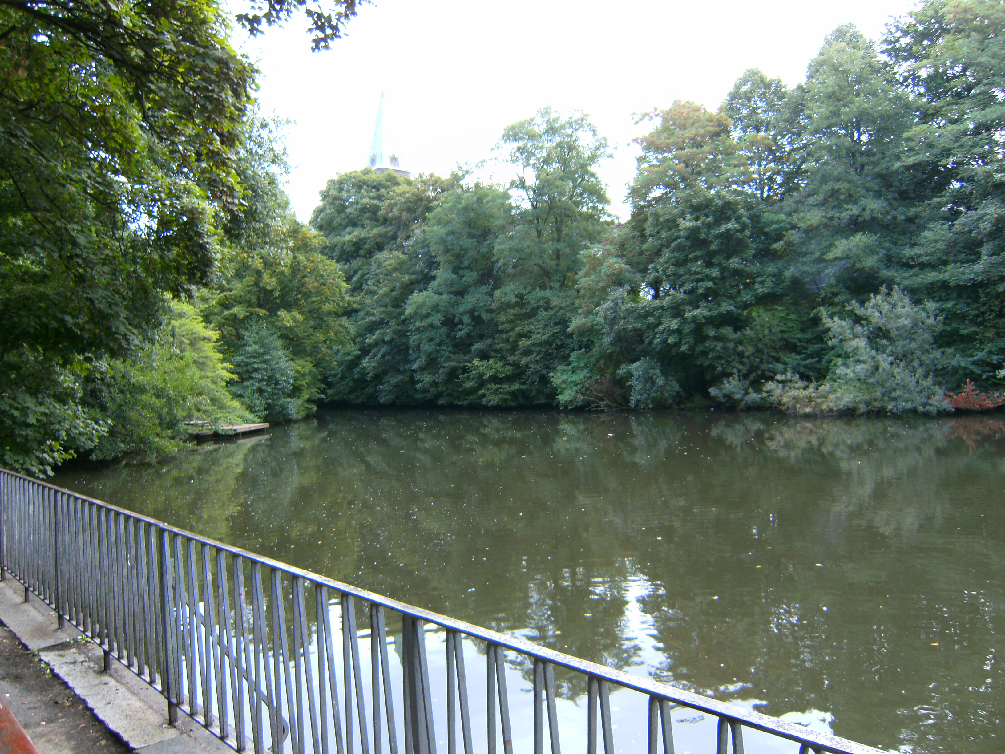 Pond in Hamburg-Barmbek: In former days turning point for ships on Eilbekkanal and loading point at Lortzingstraße.